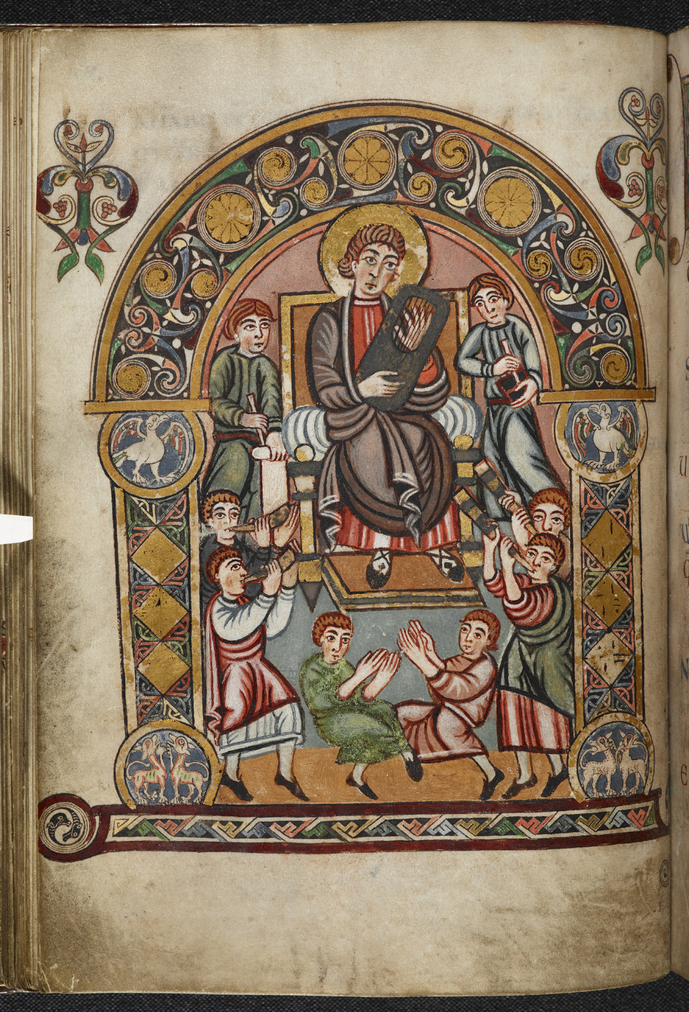 The Anglo_saxon Lyre being played using the Block and Strum tecnnique. Image from the Vespasian-Psalter from 8th century England